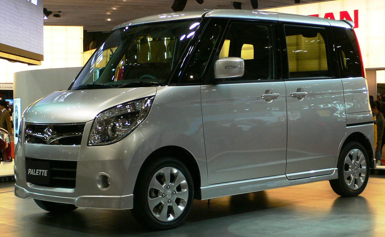 Suzuki_Palette photographed in Tokyo Motor Show 2007